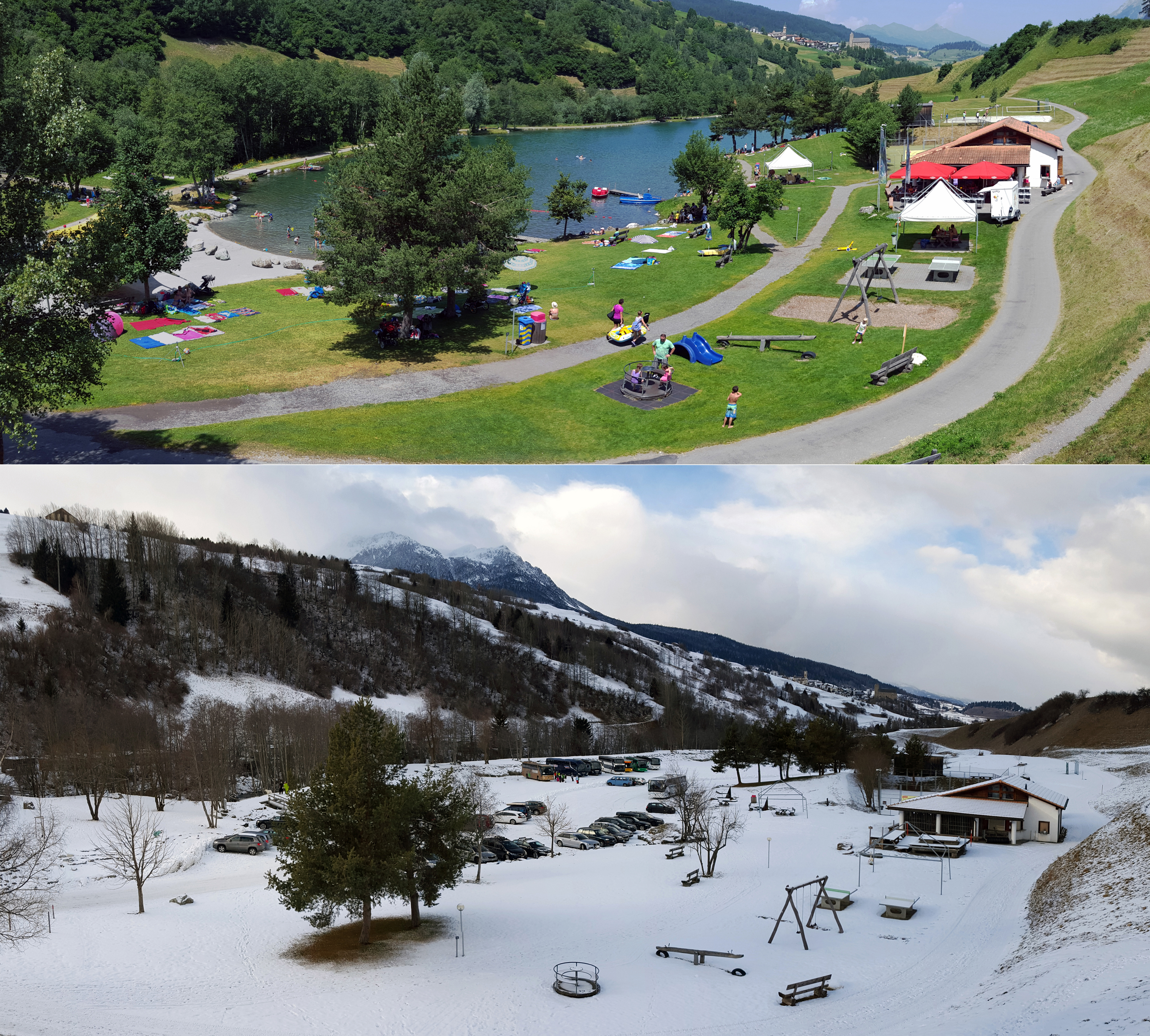 Combined lake/parking Barnagn, skiing area Savognin Bergbahnen (Savognin, Grison, Switzerland). Comparison winter/summer